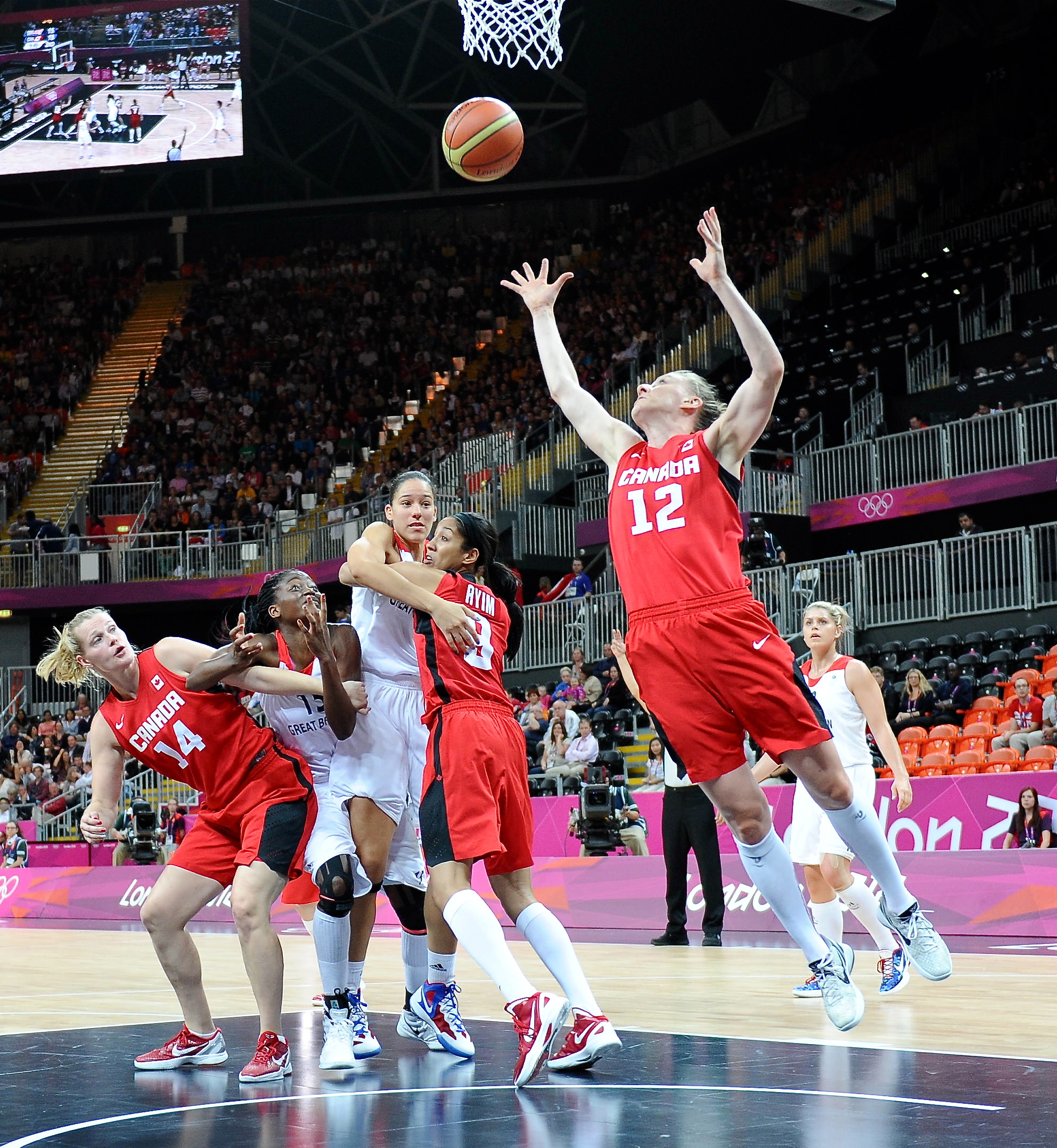 Posted via email from Globalite Magazine